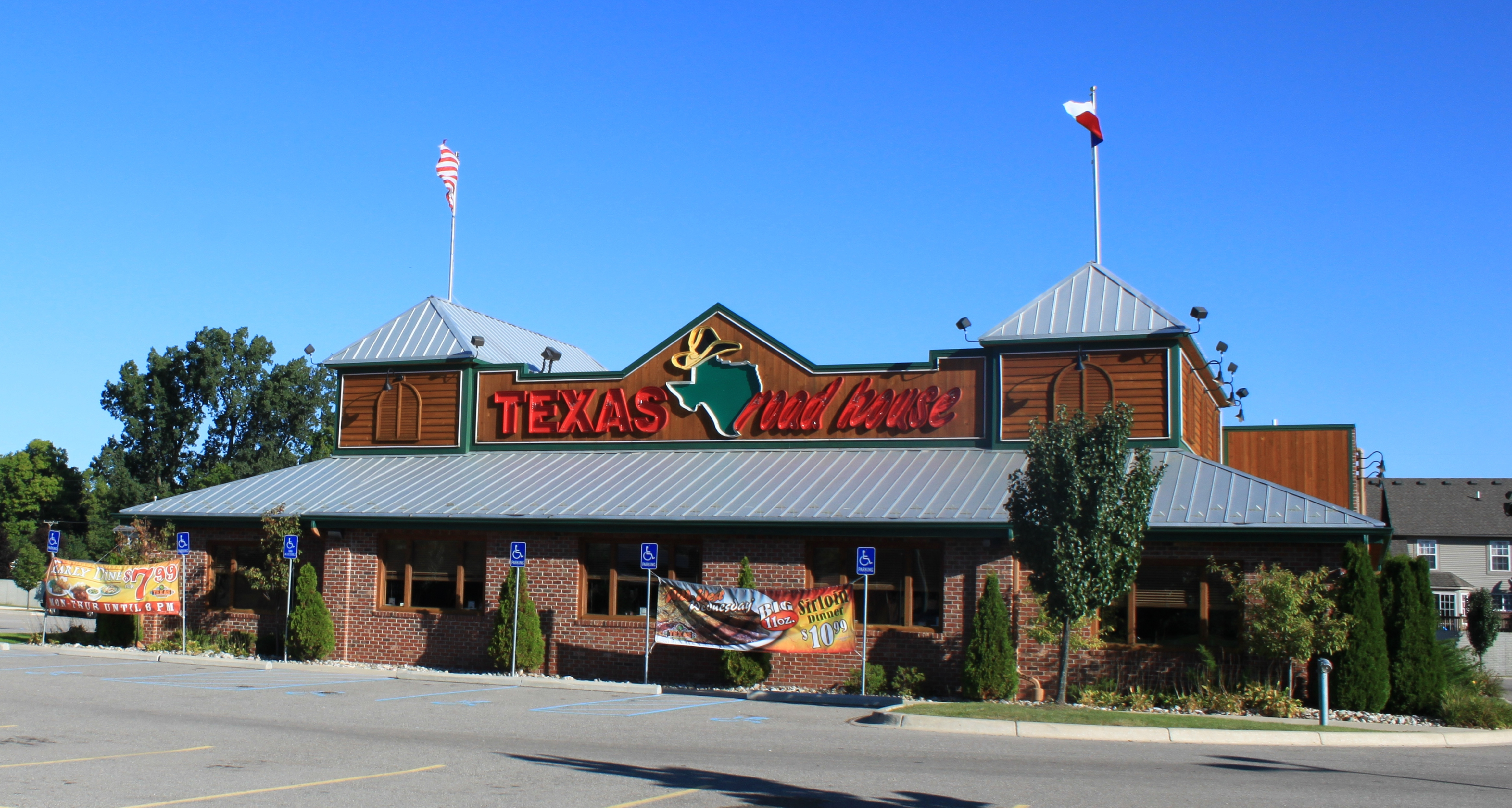 Texas Roadhouse restaurant, 36750 Ford Road, Westland, Michigan